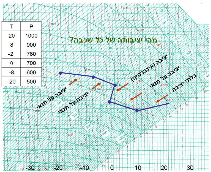 Atmospheric stability explained using Israeli service tepfigram. Dr. Baruch Ziv created, on Israeli service tepfigram.